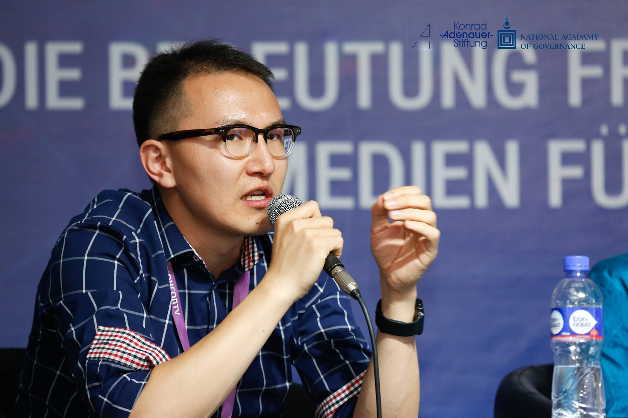 Lkhagva Erdene speaking at a conference